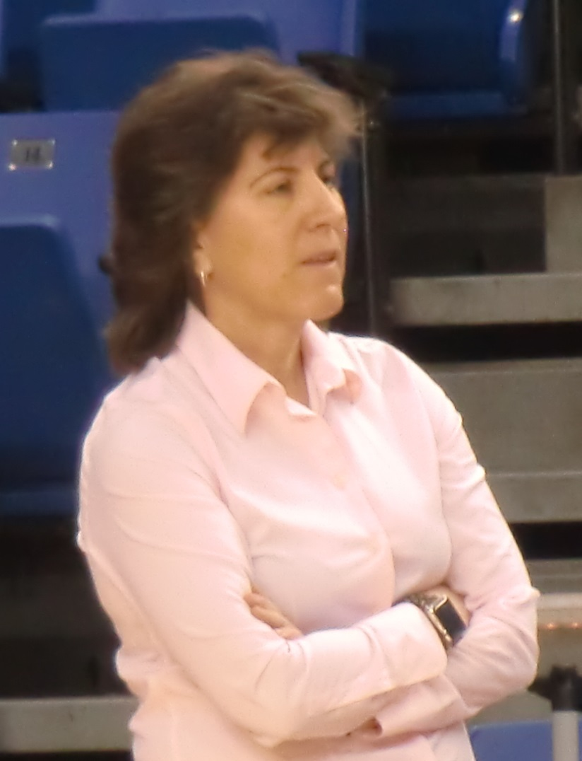 University of New Mexico women's basketball head coach Yvonne Sanchez during New Mexico's game on Feb. 13, 2016 against San Jose State University at the Event Center, San Jose, Calif.